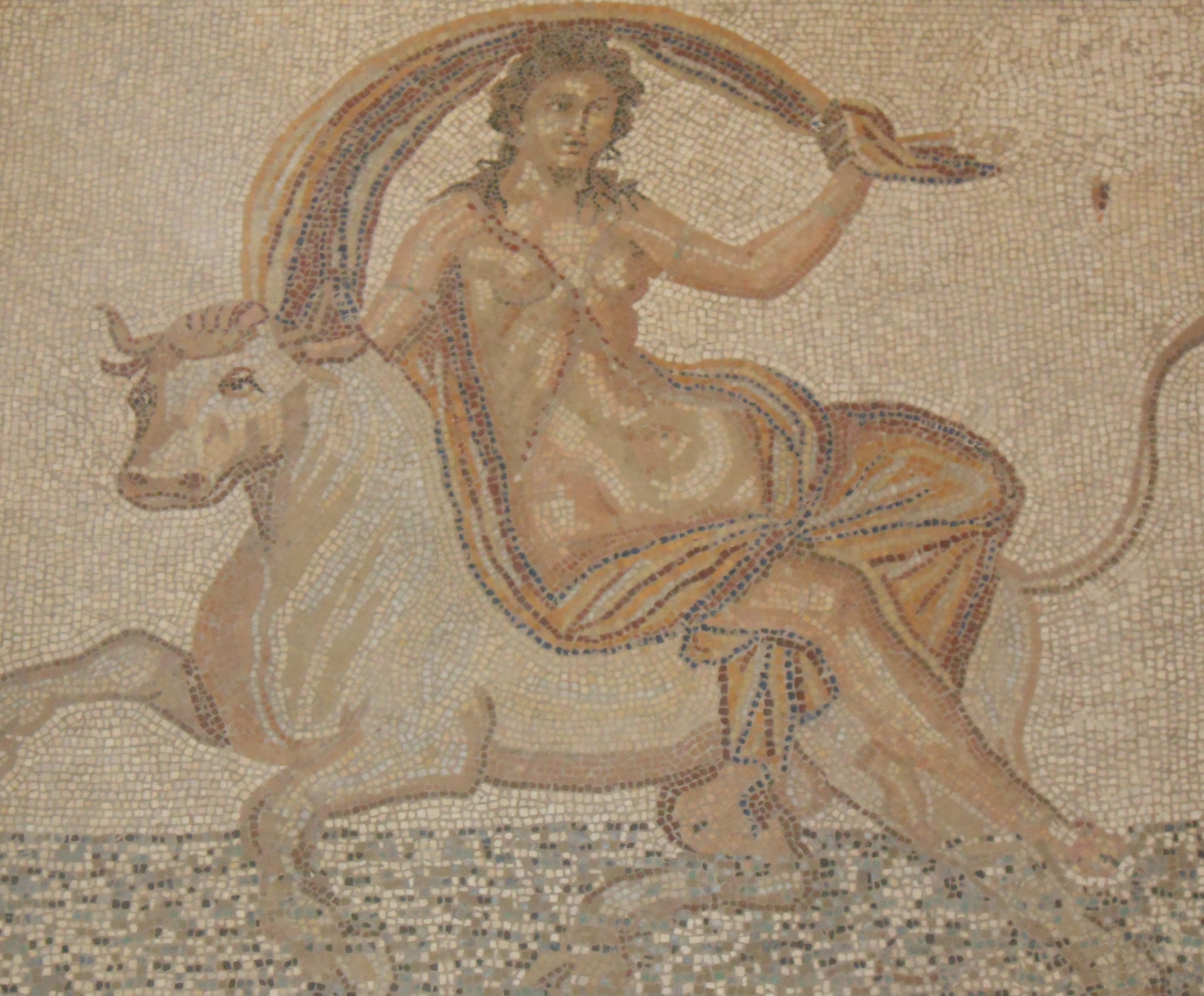 Europa, roman mosaïc in Antiquities Arles Museum. Europe, mosaïque romaine au musée de l'Antiquité d'Arles.